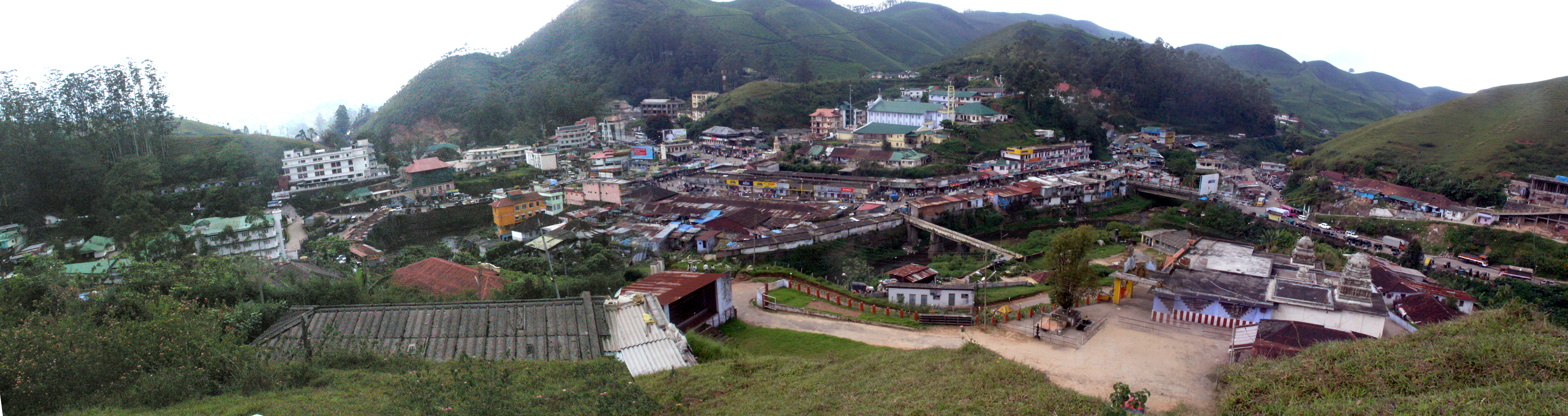 Munnar Town From Backside Of Temple